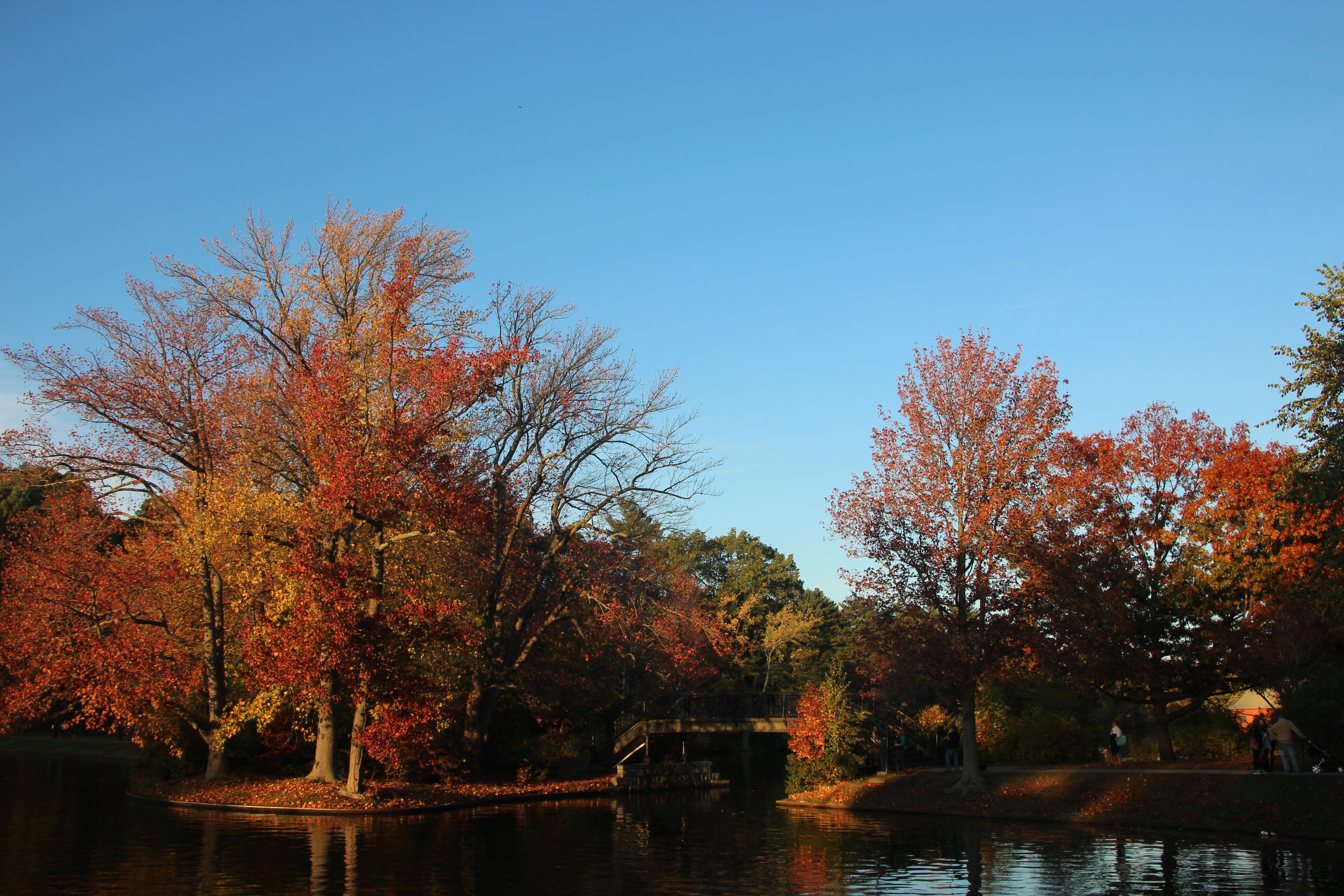 Roger Williams Park Swan Boat Pond, Providence, Rhode Island, with New England Autumn foliage